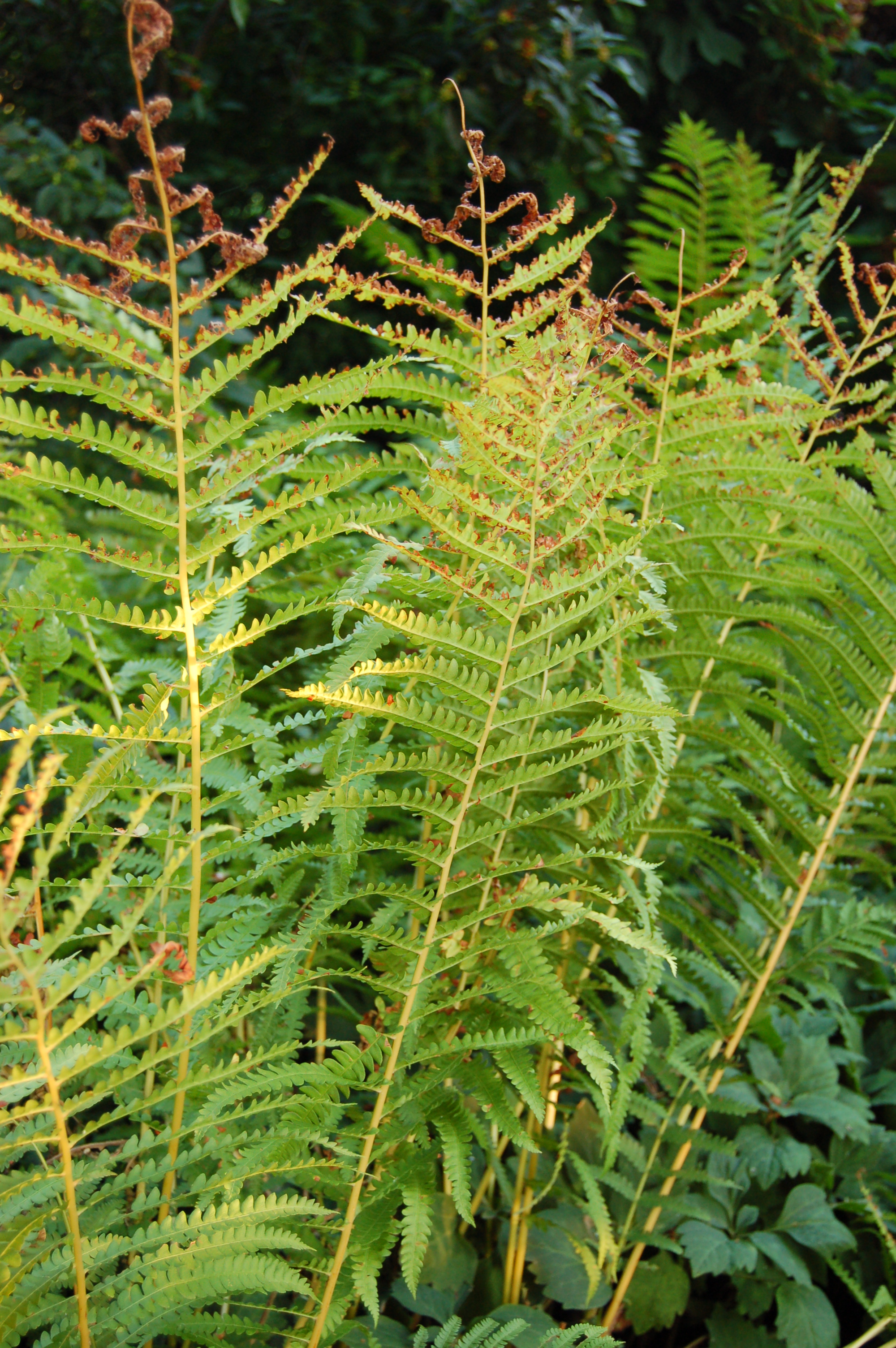 Photograph of the Cinnamon Fern (Osmundastrum cinnamomeum). Photo taken at the Tyler Arboretum where it was identified.